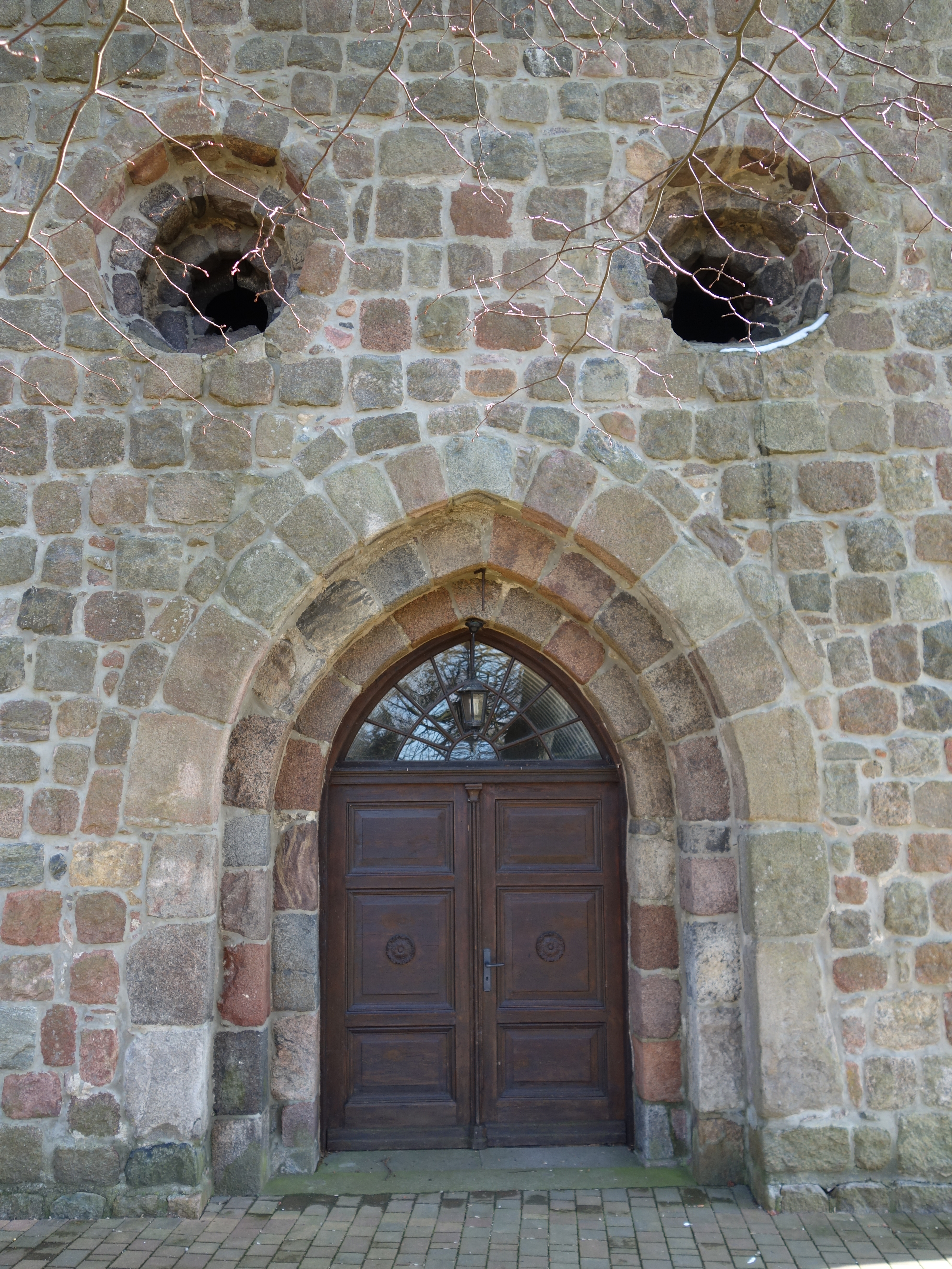 Western portal of the church in Lützlow , Gramzow municipality , Uckermark district, Brandenburg state, Germany